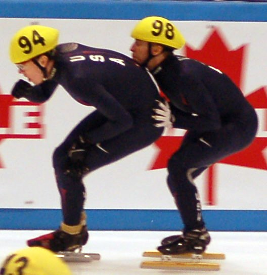 Relay between Ryan Bedford (94) and Jordan Malone (98) during the B-final at the World Cup in Heerenveen (4 February 2007)